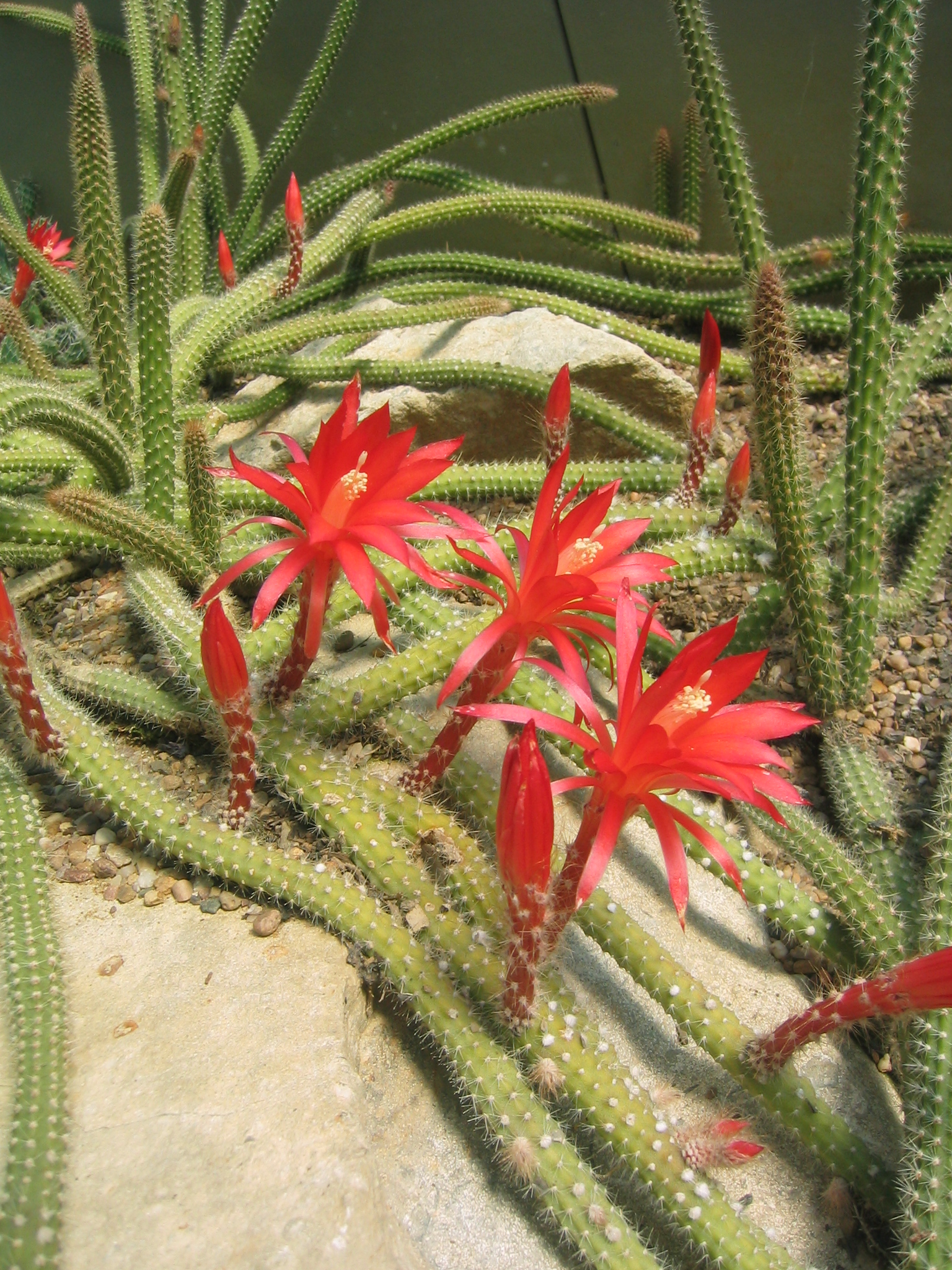 Disocactus martianus Photo take by me, David Thornton, at Kew Gardens in England.